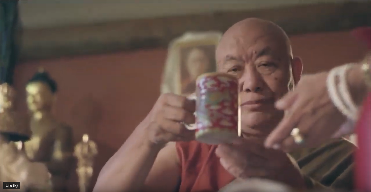 Dagsay Tulku